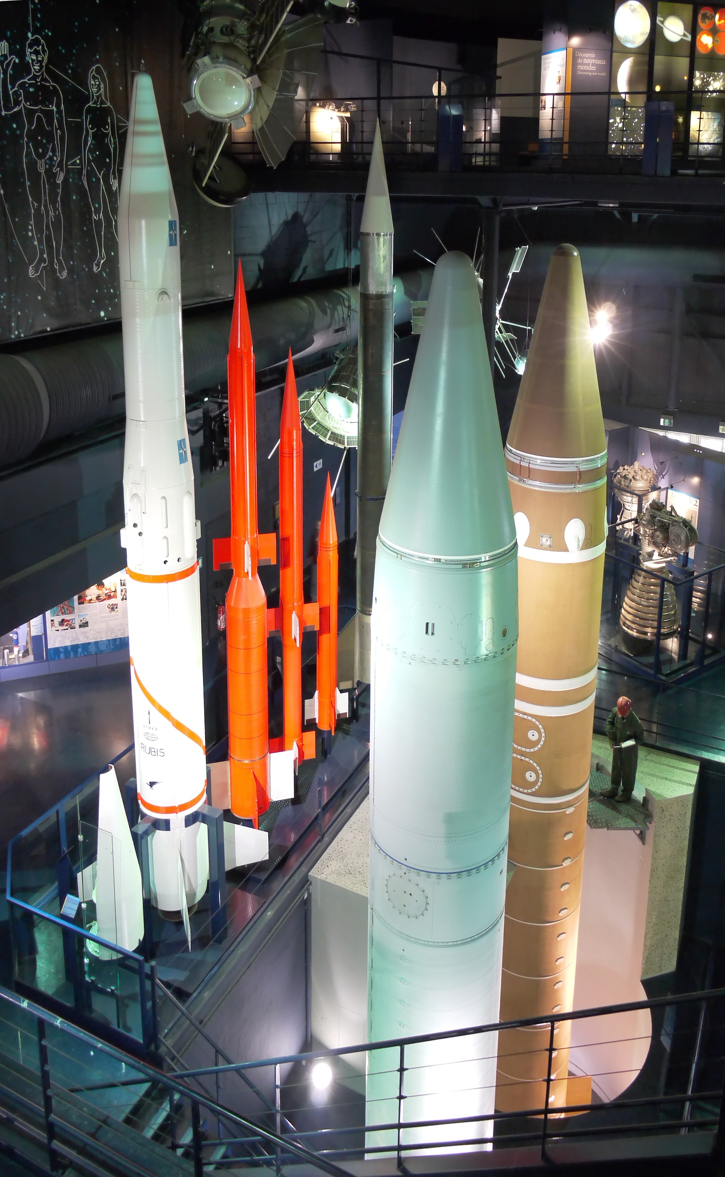 Missiles and Sounding rocket,s Museum of Air and Space Paris, Le Bourget (France)